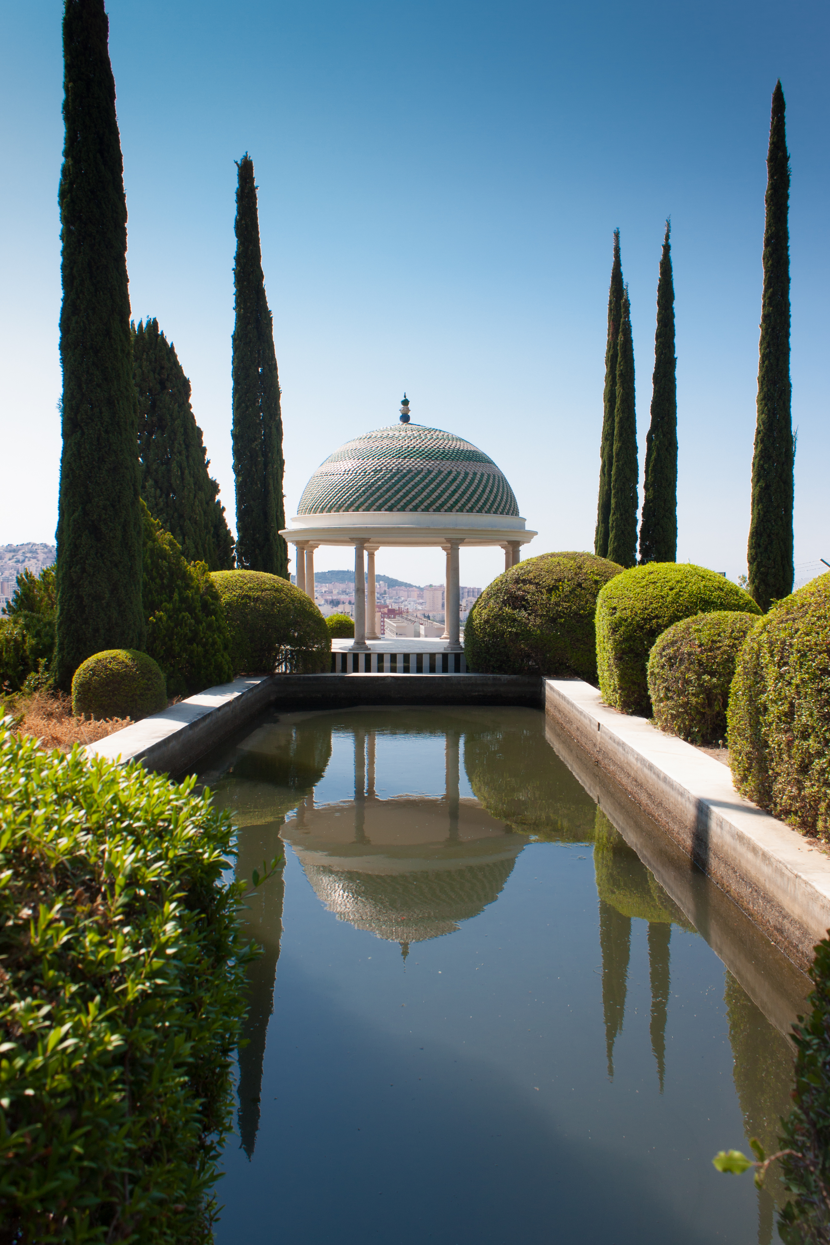 La Concepción, botanical and historical garden, Málaga, Spain.